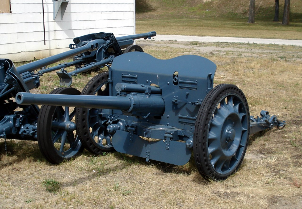 French 47 mm APX anti-tank at Base Borden Military Museum. On the left is a PAK 38 gun, and just behind a PAK 97/38 gun.